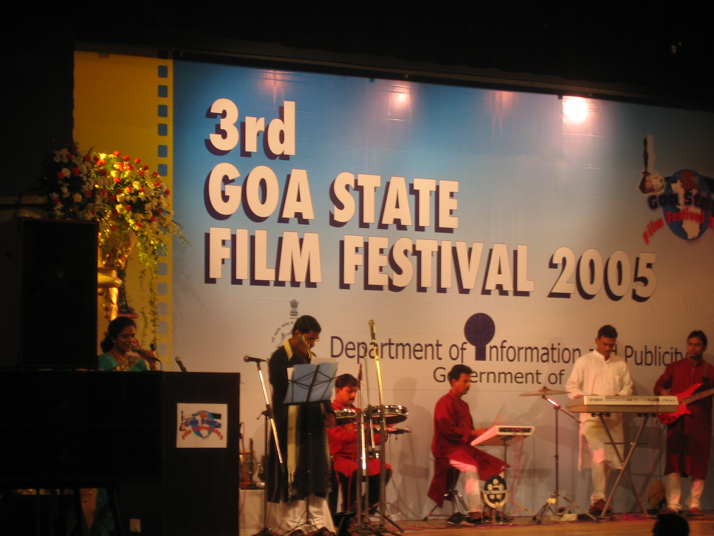 State-level film festival in Goa, India. Photo by Frederick "FN" Noronha. 2005.